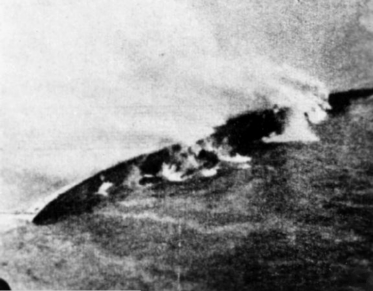 The Battle of Crete, 20 - 31 May 1941, Invasion: Photograph taken by a German airman recording the sinking of HMS Gloucester (62) off the coast of Crete, 22 May 1941.